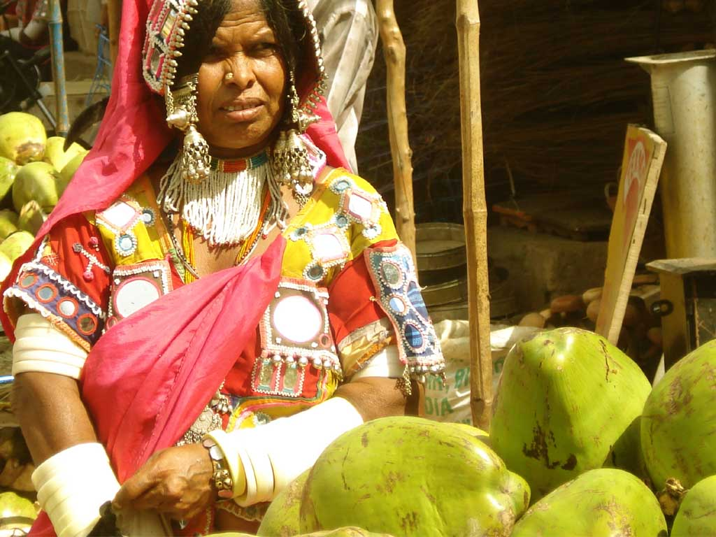 A woman belonging to LAMBADI TRIBE in Andhra Pradesh, India photpgraph taken from contributed by ajjnabeee1